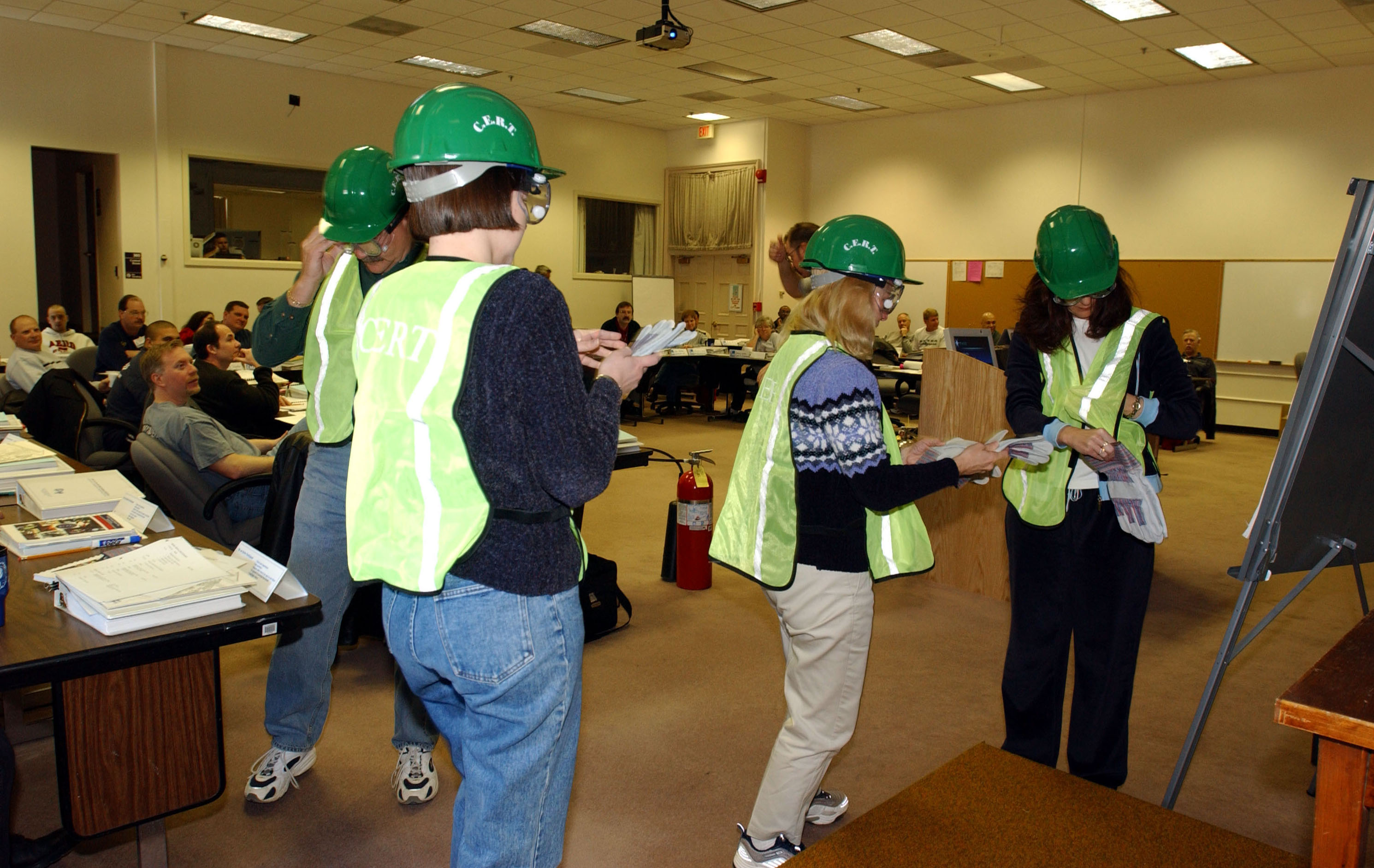 Emmitsburg, MD, March 10, 2003 -- FEMA's National Emergency Training Center is the site for dozens of classes, including sessions that train Community Emergency Response Team (CERT) leaders from across the country. CERT is an important tool for local emergency managers. Photo by Jocelyn Augustino/FEMA News Photo